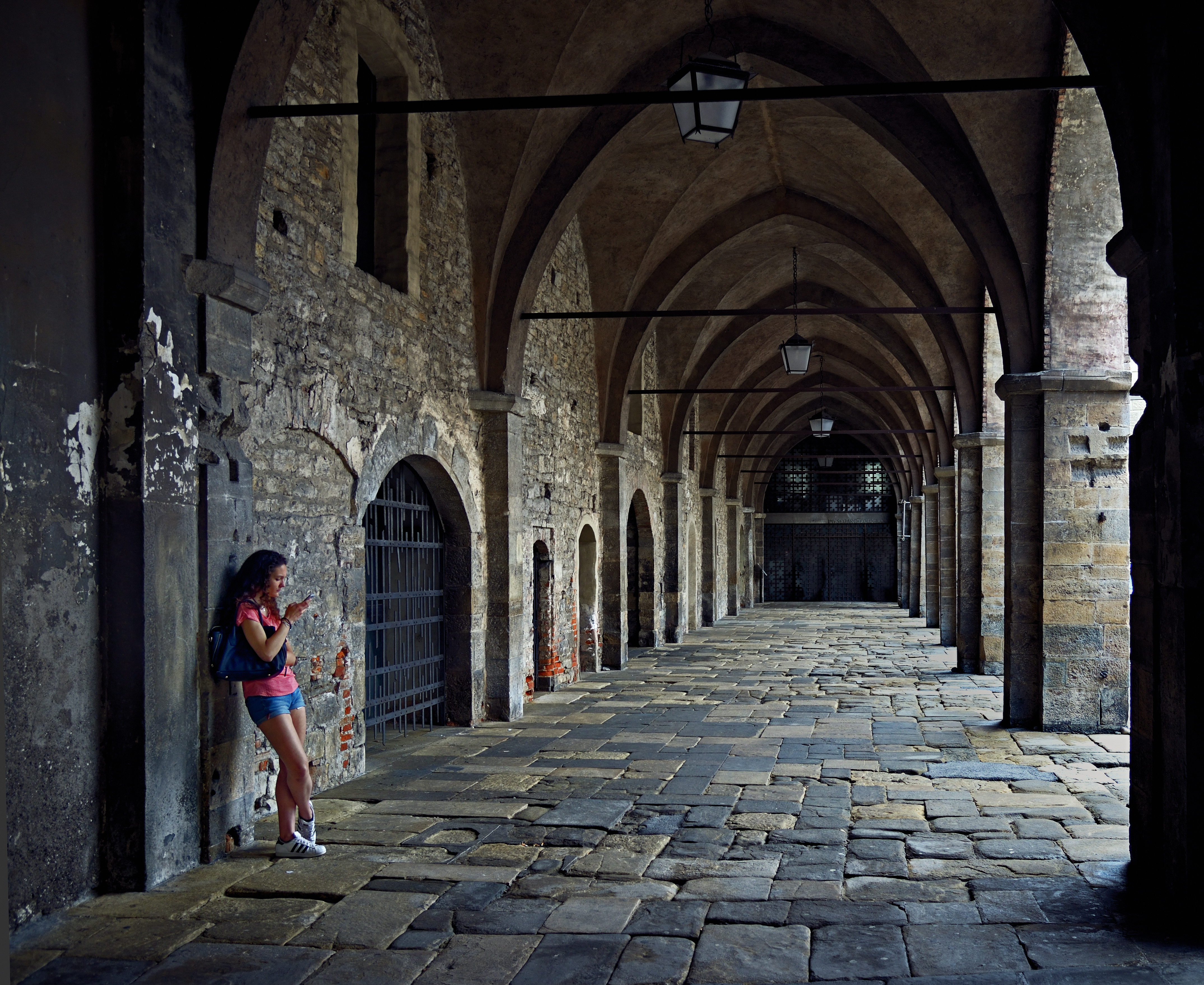 Piazza della cittadella, Bergamo. Italy